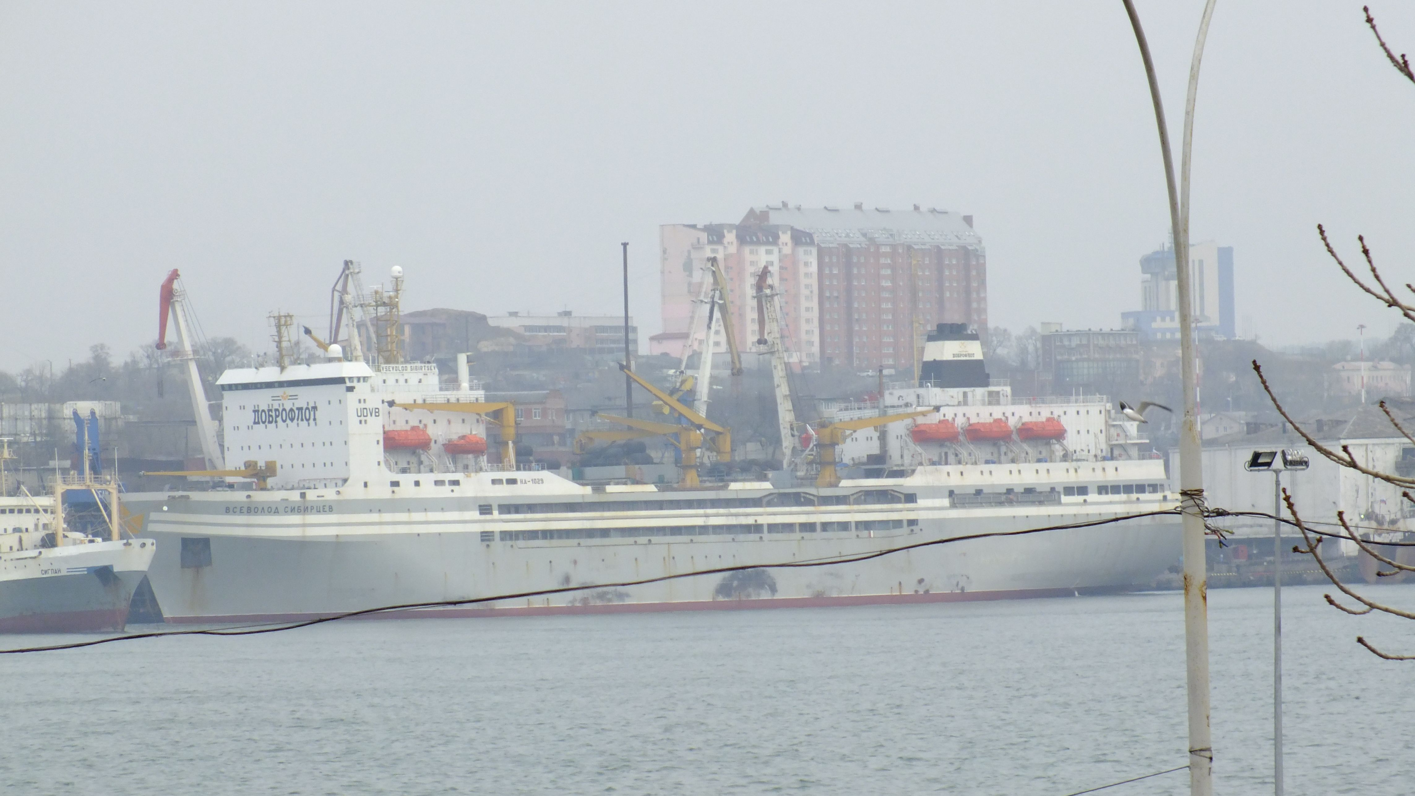 Ships in Vladivostok (V-0668 Siglan (left), ND-1029 Vsevolod Sibirtsev)